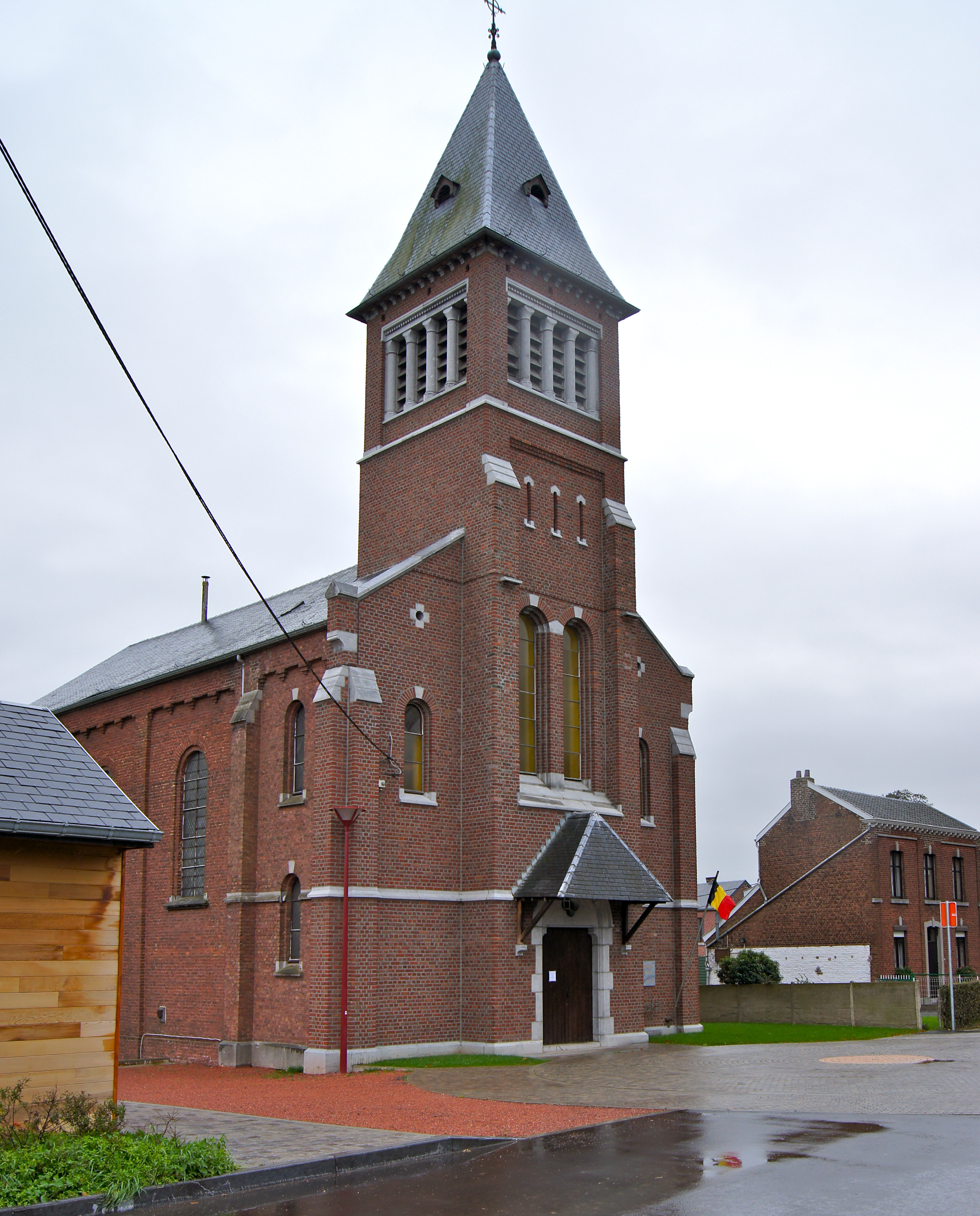 Blegny (Trembleur), Belgium: Church tower and the Saint Joseph's Chapel